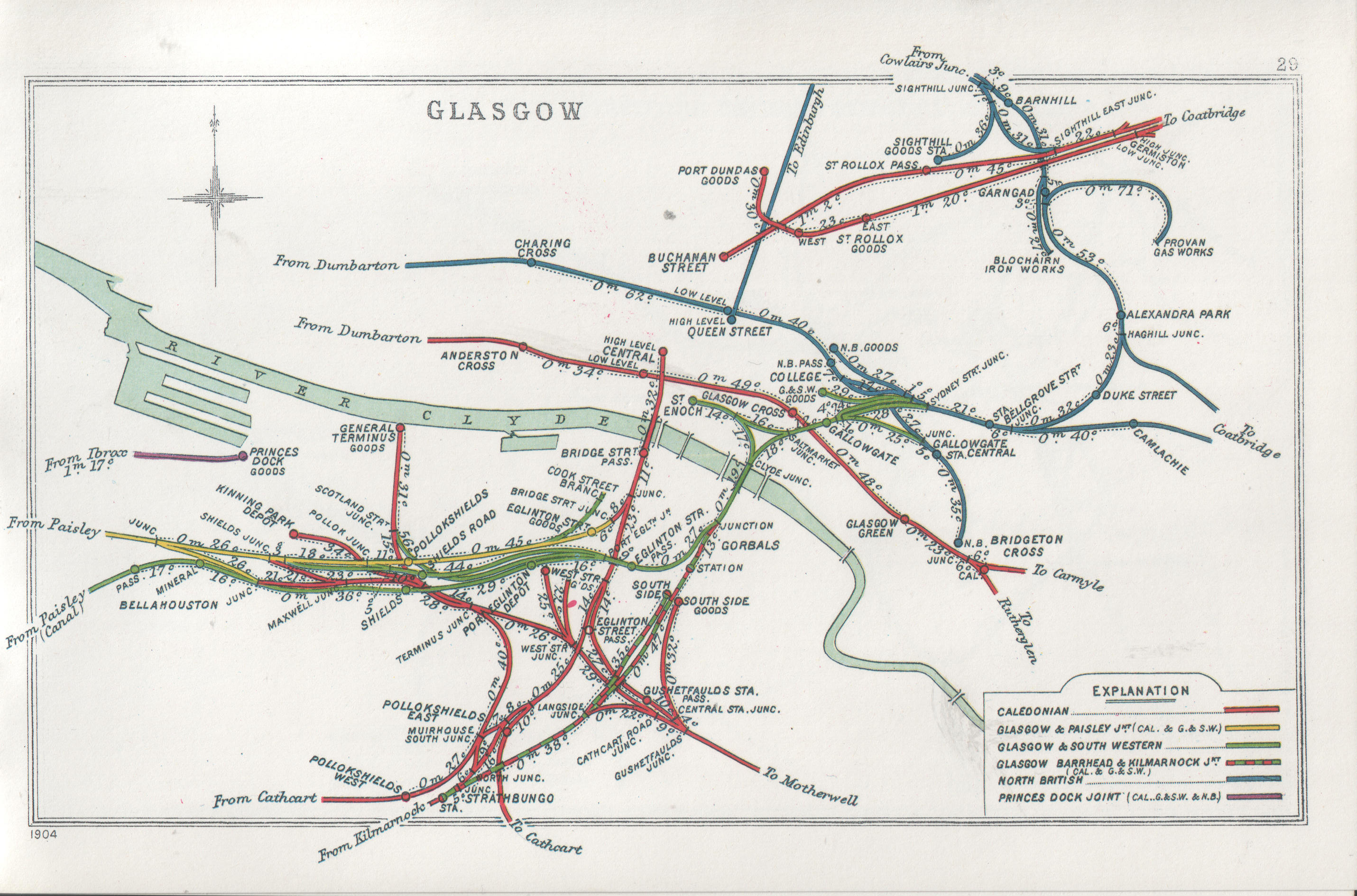 Pre Grouping railway junction around Glasgow